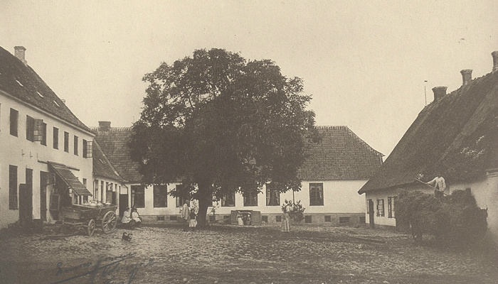 Ringstedluind in Rungsted, Denmark